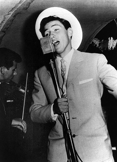 Berlusconi da giovane